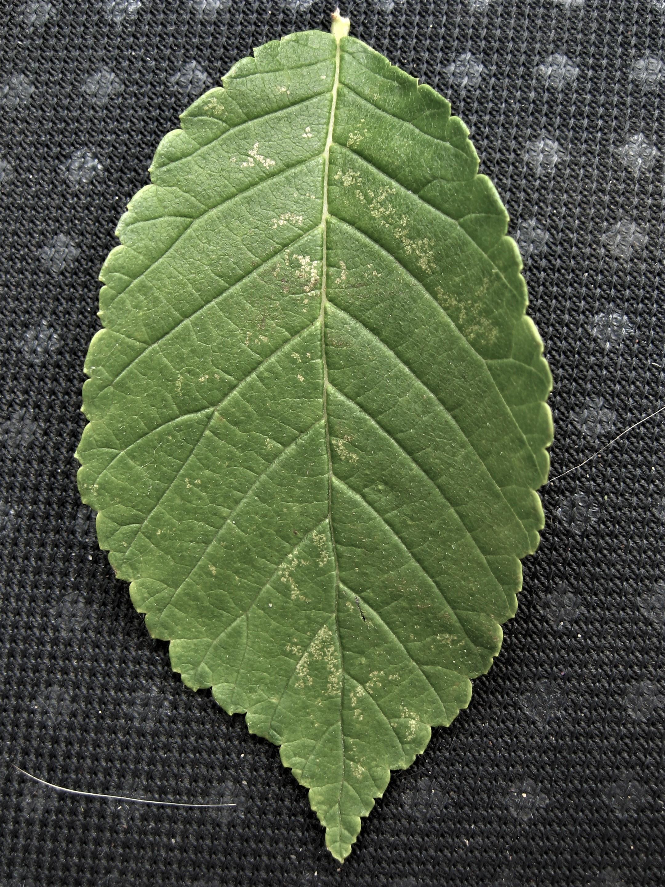 Photo of leaf of Ulmus hybrid cultivar 'Rebona'